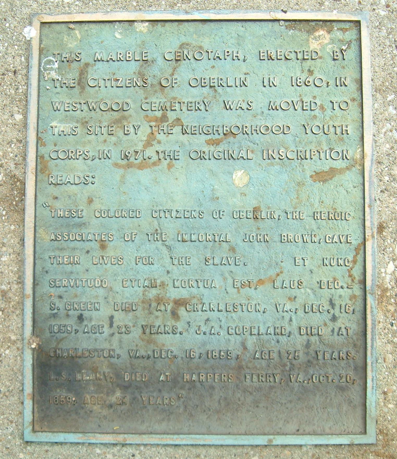 Interpetive plaque and original inscription of a cenotaph erected to honor the "colored citizens of Oberlin" who died during or because of their participation in John Brown's raid on Harper's Ferry.